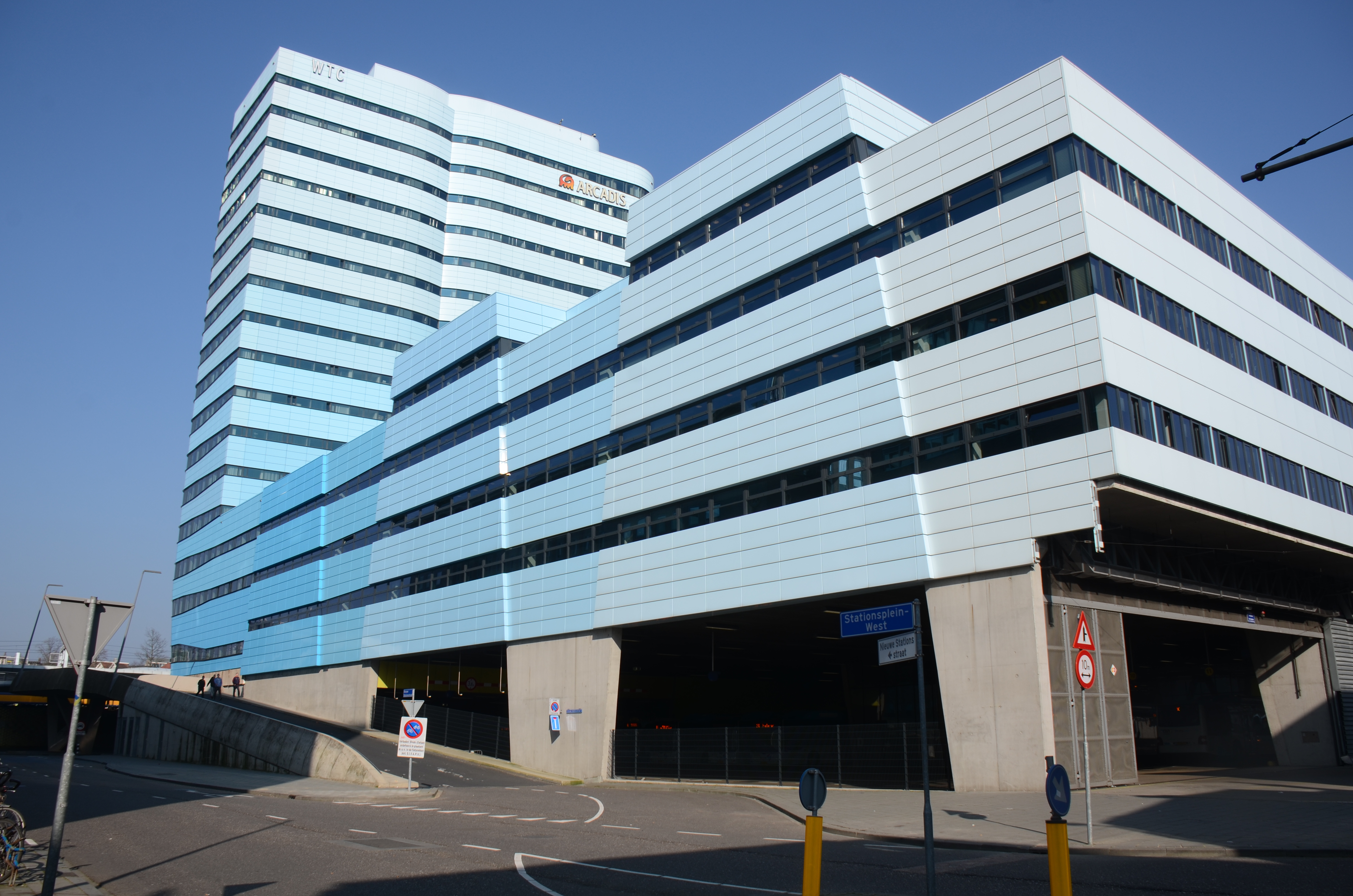 WTC Arnhem as start of the total trainstation renewal from Ben van Berkel architect